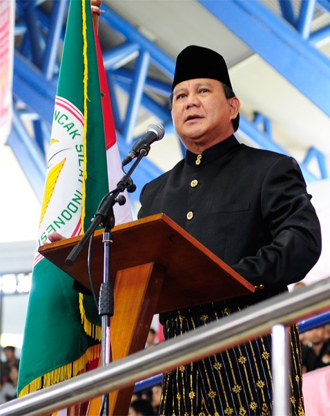 Prabowo Subianto, Indonesian military and politician